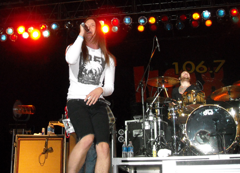 Ronnie Winter of Red Jumpsuit Apparatus performing in Dothan, Alabama on December 19, 2008.